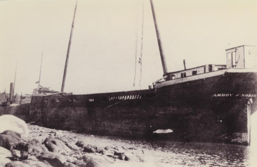 Stern view of the schooner barge Amboy aground after the Mataafa Storm